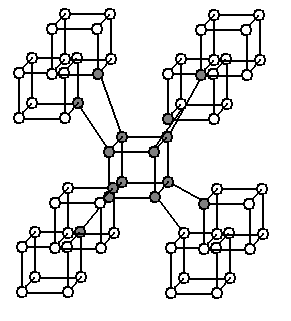 Ball and stick figure of a cubic carbon nanocrystal.